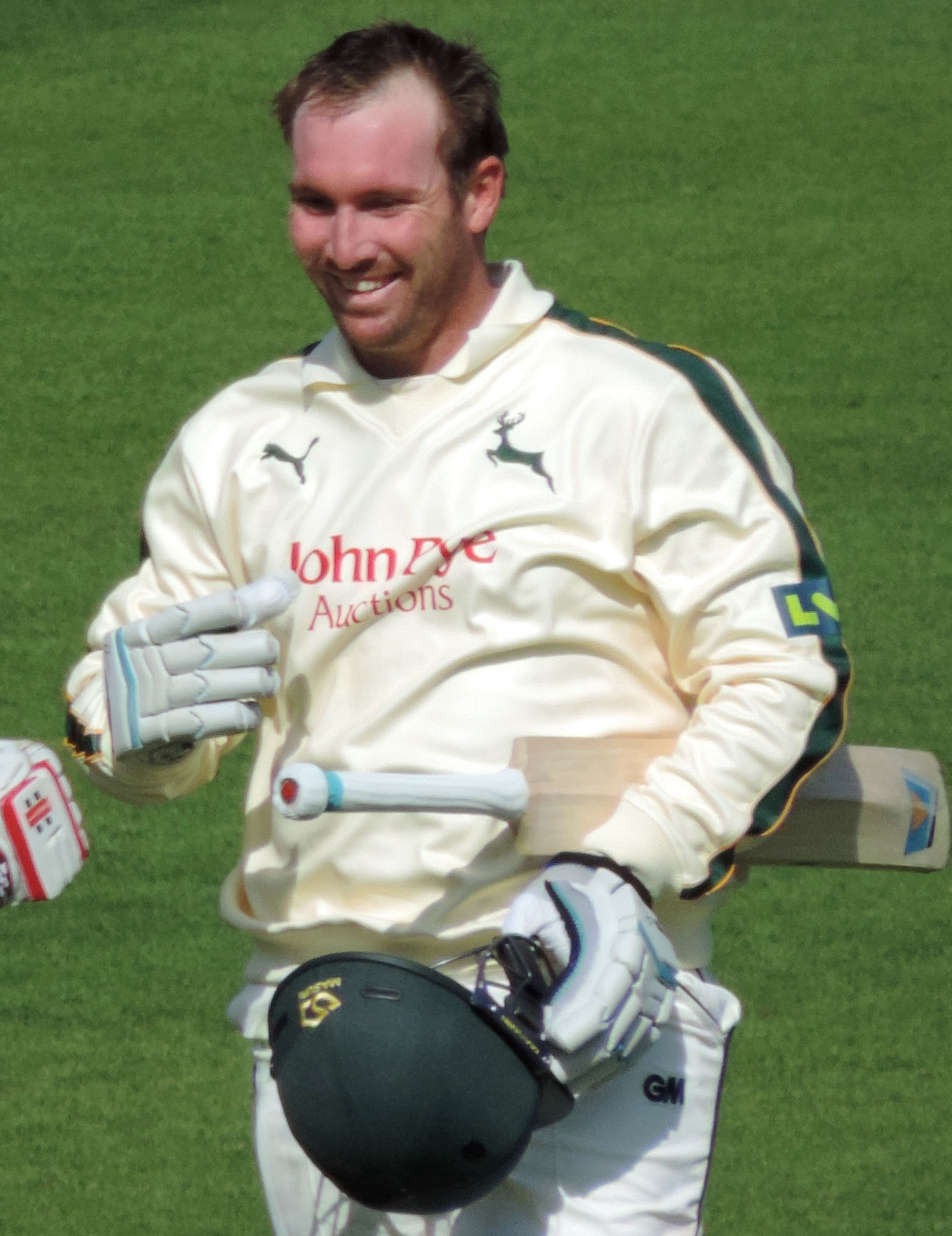 James Taylor congratulating Brendon Taylor after he'd reached 100 for Notts. The County Championship starts mid April these days; luckily we had some decent weather for Middlesex's opening fixture, against Notts - which has ended in a draw.